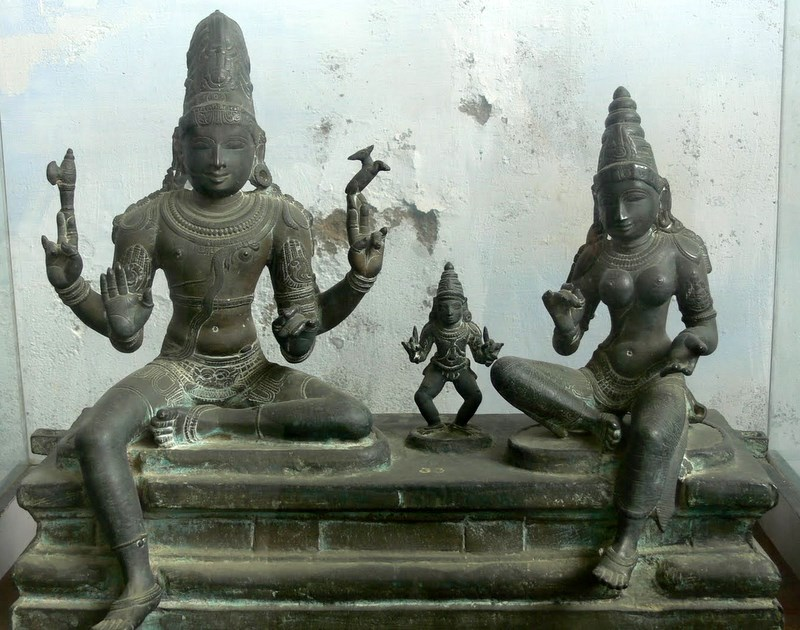 Somaskanda